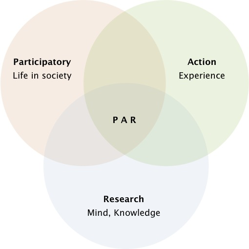 Participatory Action Research diagramm